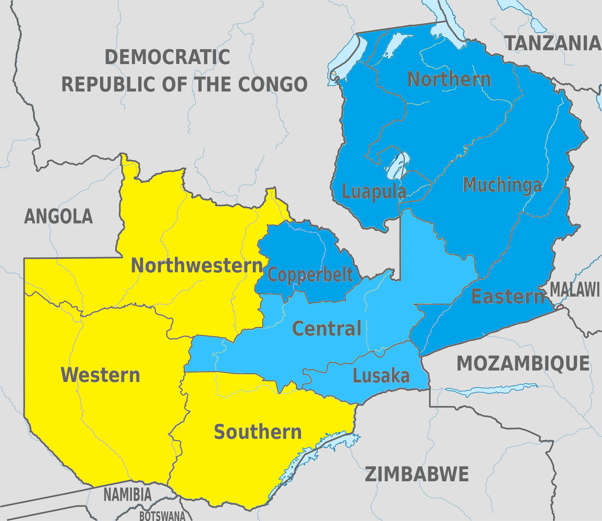 Zambian 2015 presidential election winner by province; a derivative of File:Zambia, administrative divisions - en - colored.svg by Ymblanter and data from the Zambian Electoral Commission